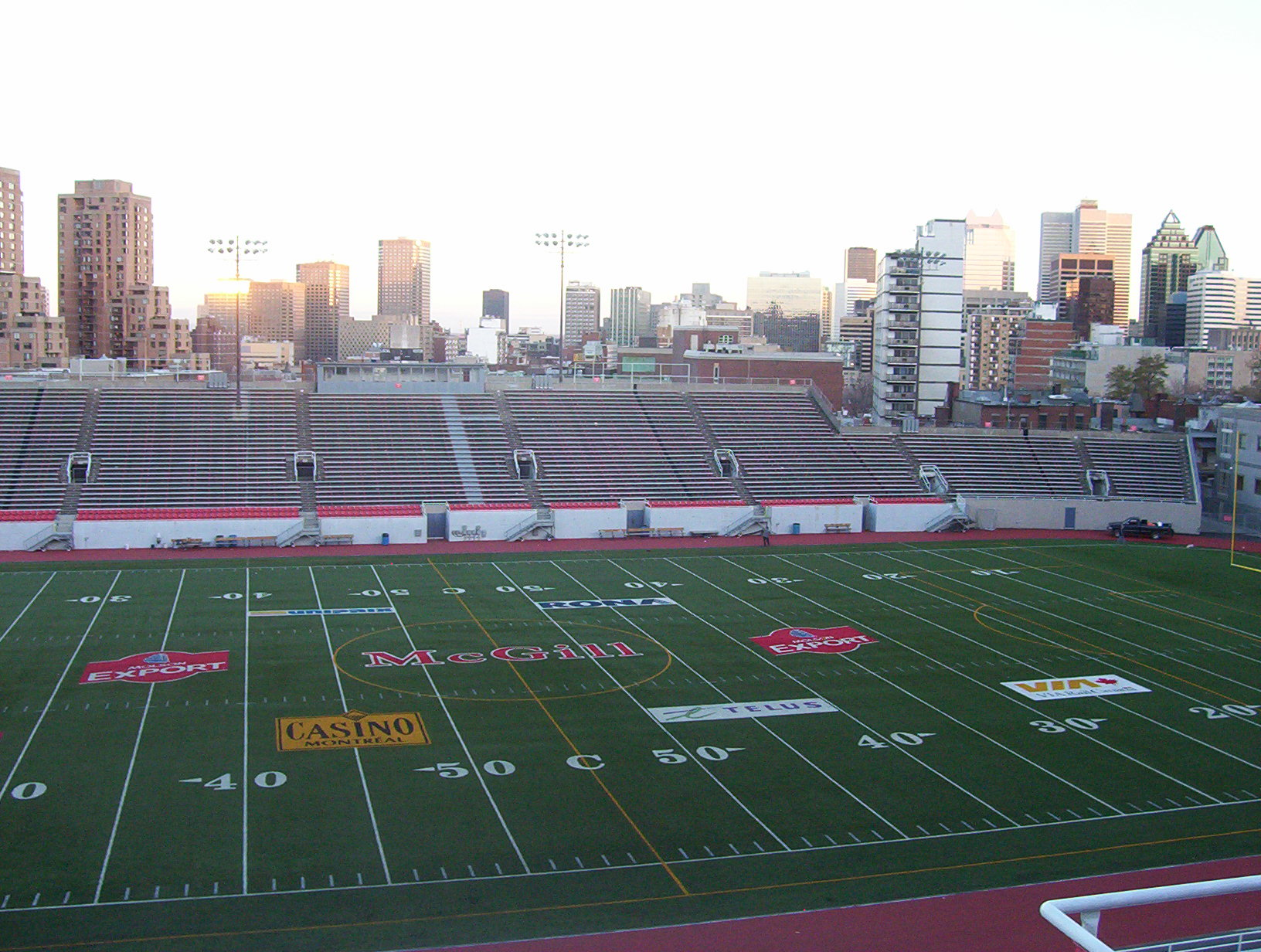 Percival Molson Stadium at sundown, November 14, 2005